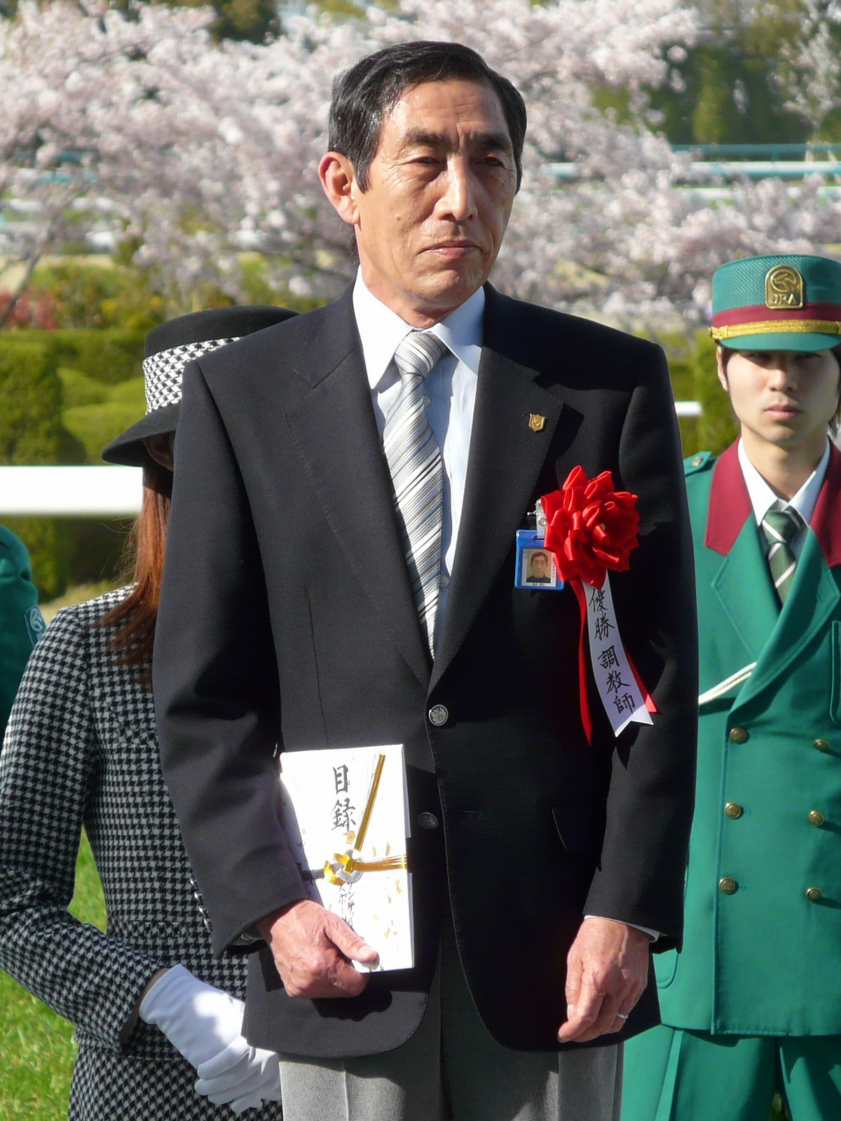 Hiroyuki-Nagahama20100410